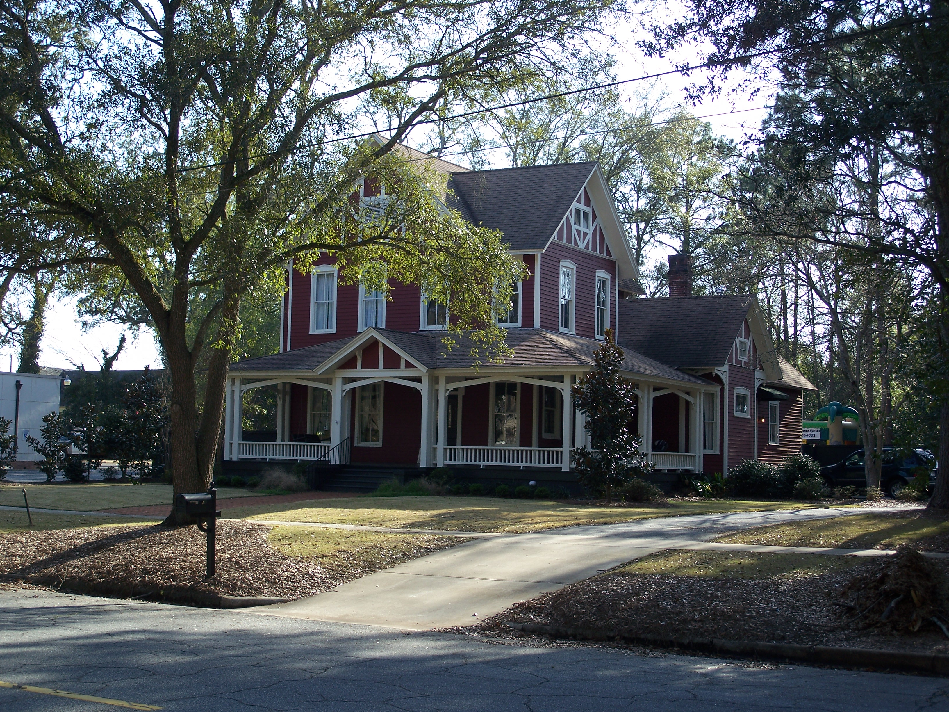 Thomasville, Georgia: A house in Dawson Street Residential Historic District, on southwest side of 300 block of N. Dawson Street (perhaps #319?), between E. Washington St. and E. Monroe St.